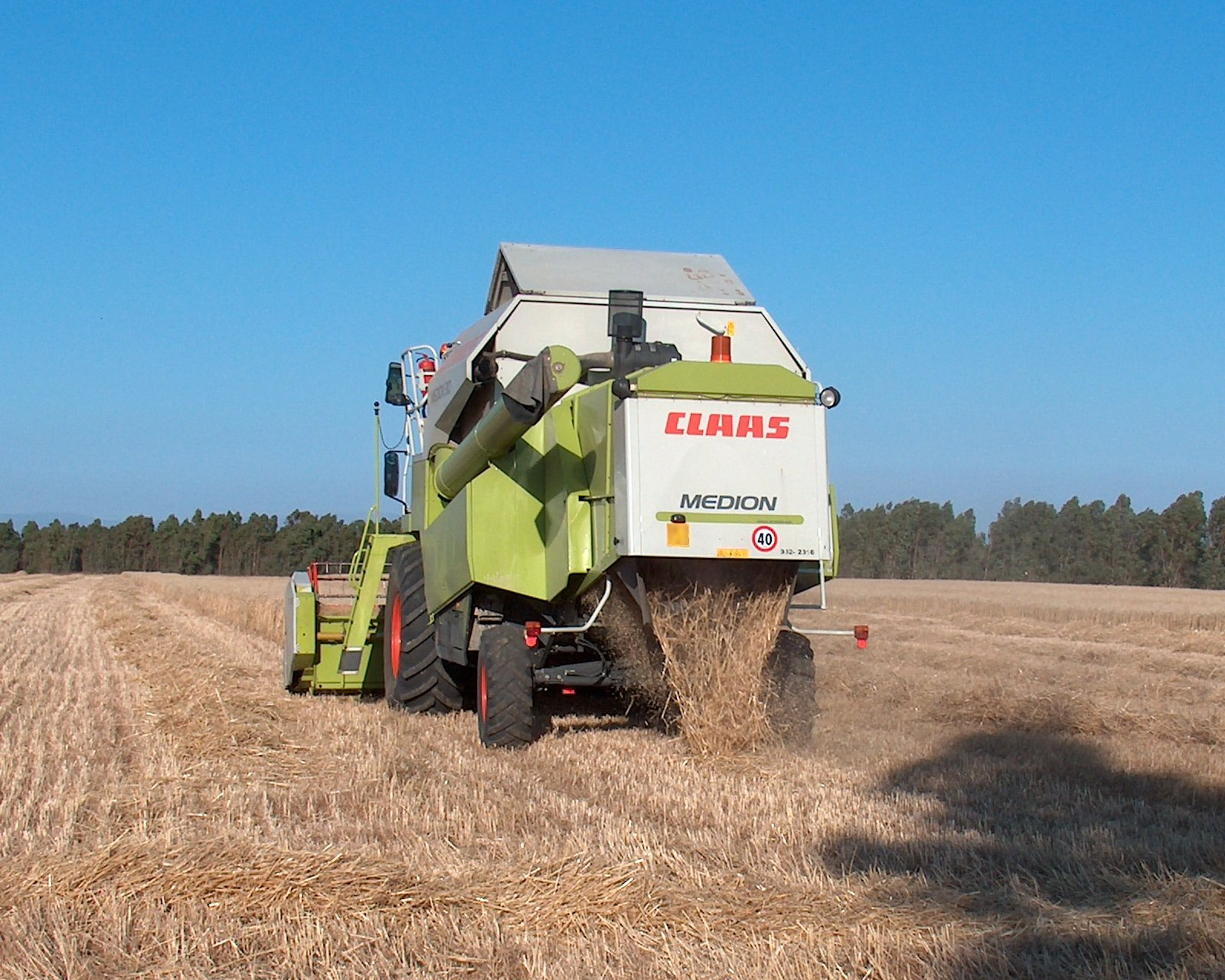 Claas combine harvester Medion – Professional Institute of Agriculture and Environment "Cettolini" of Cagliari (Sardinia, Italy) – Associated School of Villacidro (Sardinia, Italy)